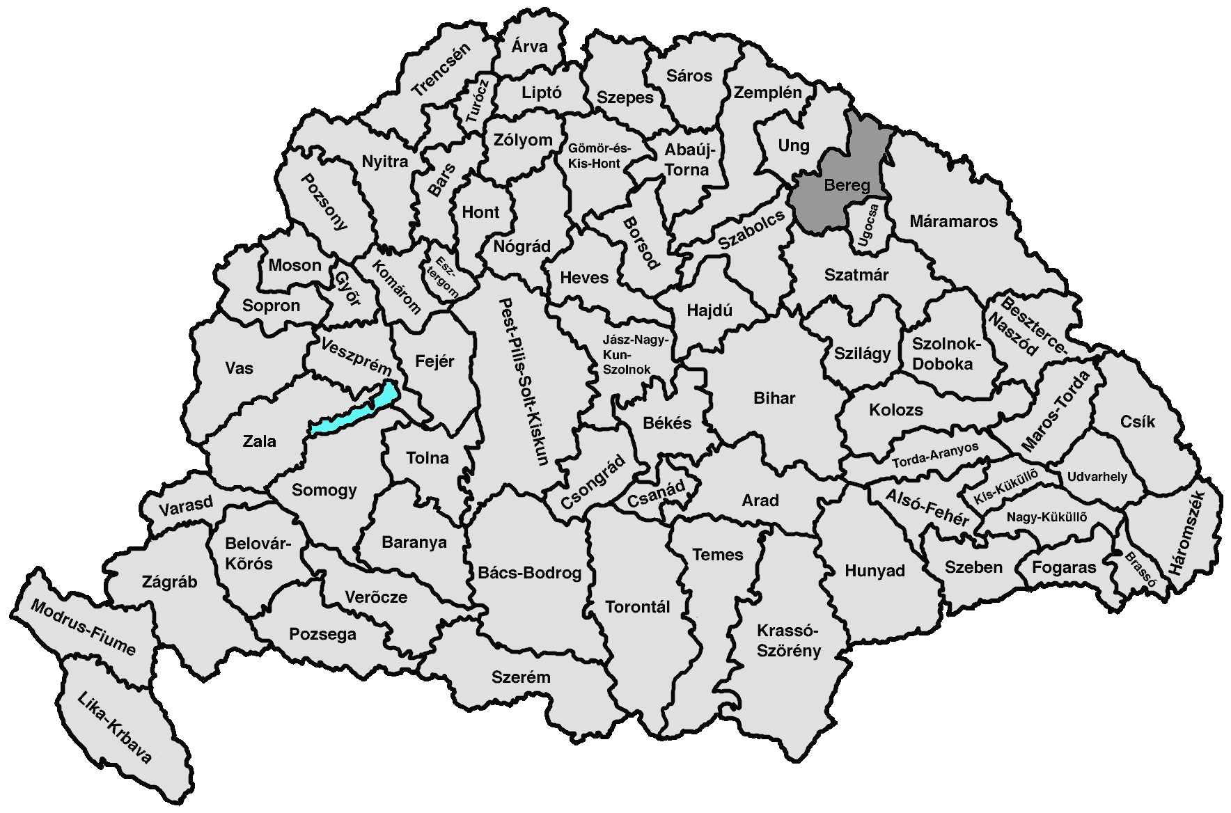 own edit of Image:Zala.png